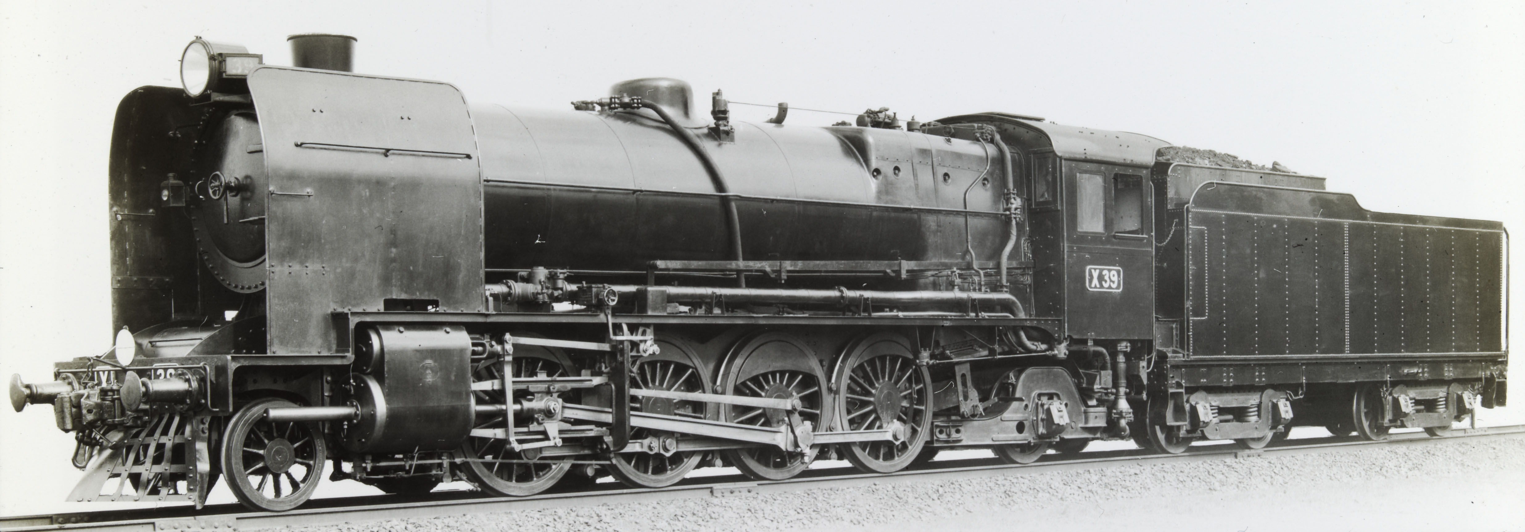 Victorian Railways photograph of Victorian Railways X class locomotive X 39